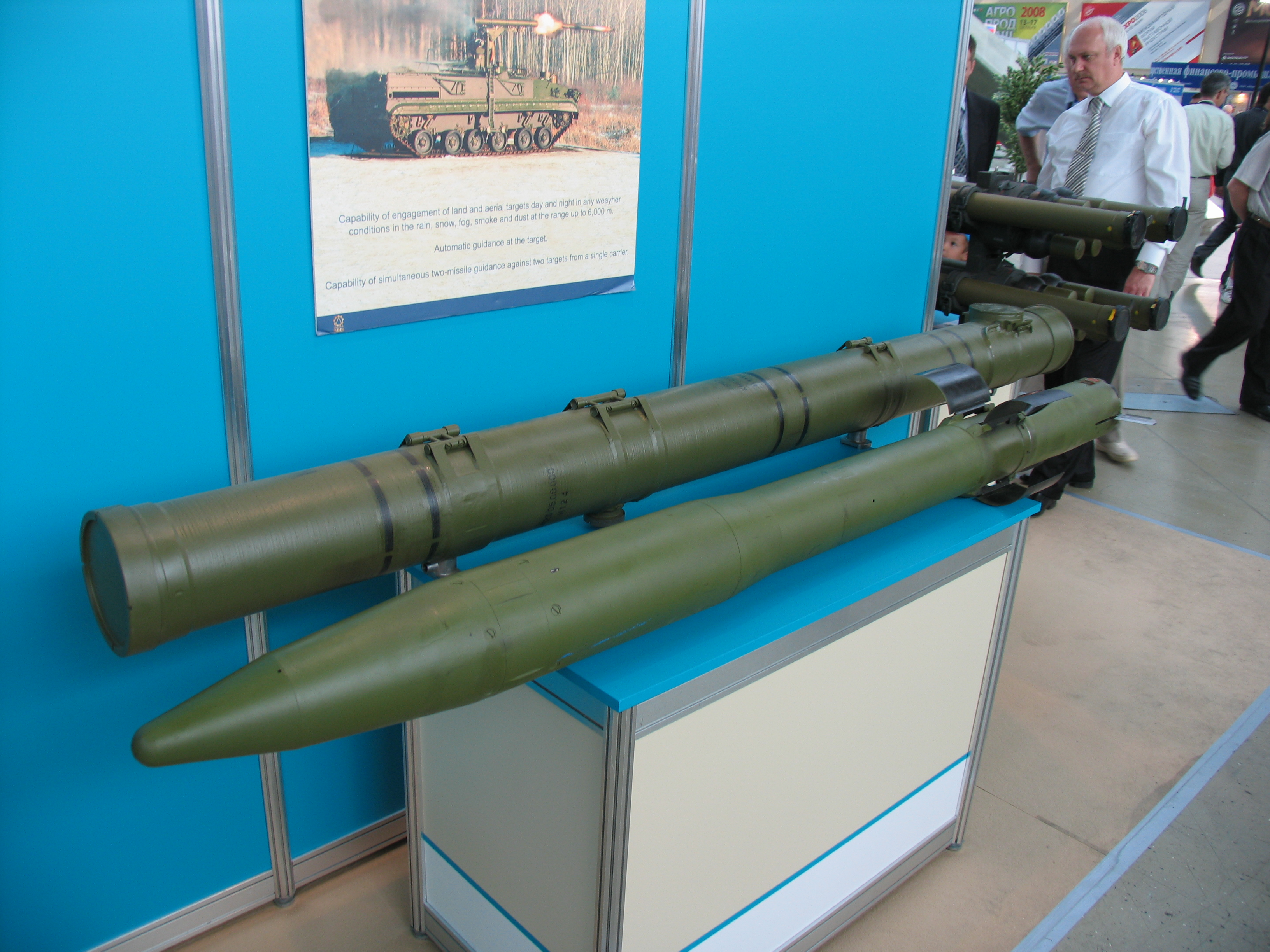 Anti-tank missile 9M123 Khrizantema at IDELF-2008.